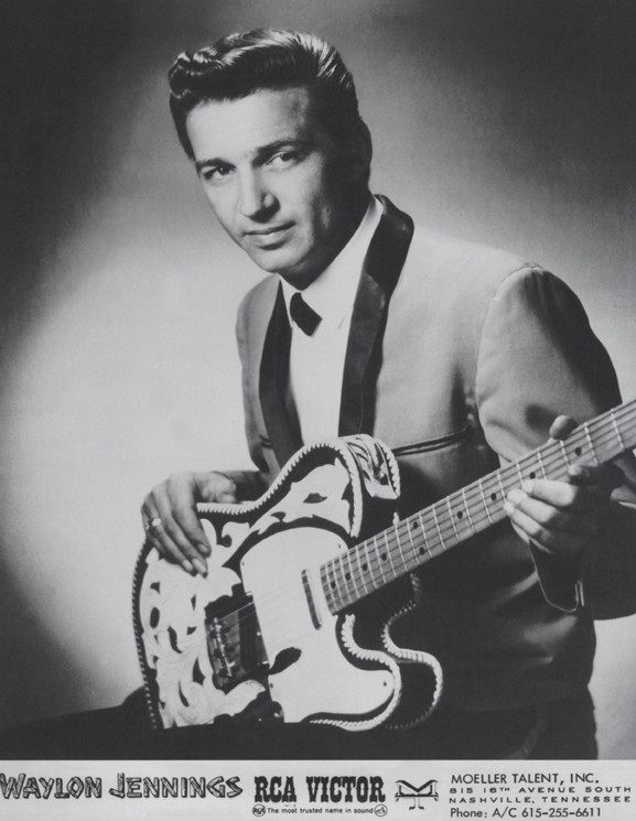 Waylon Jennings posing for a promotional portrait for RCA Records